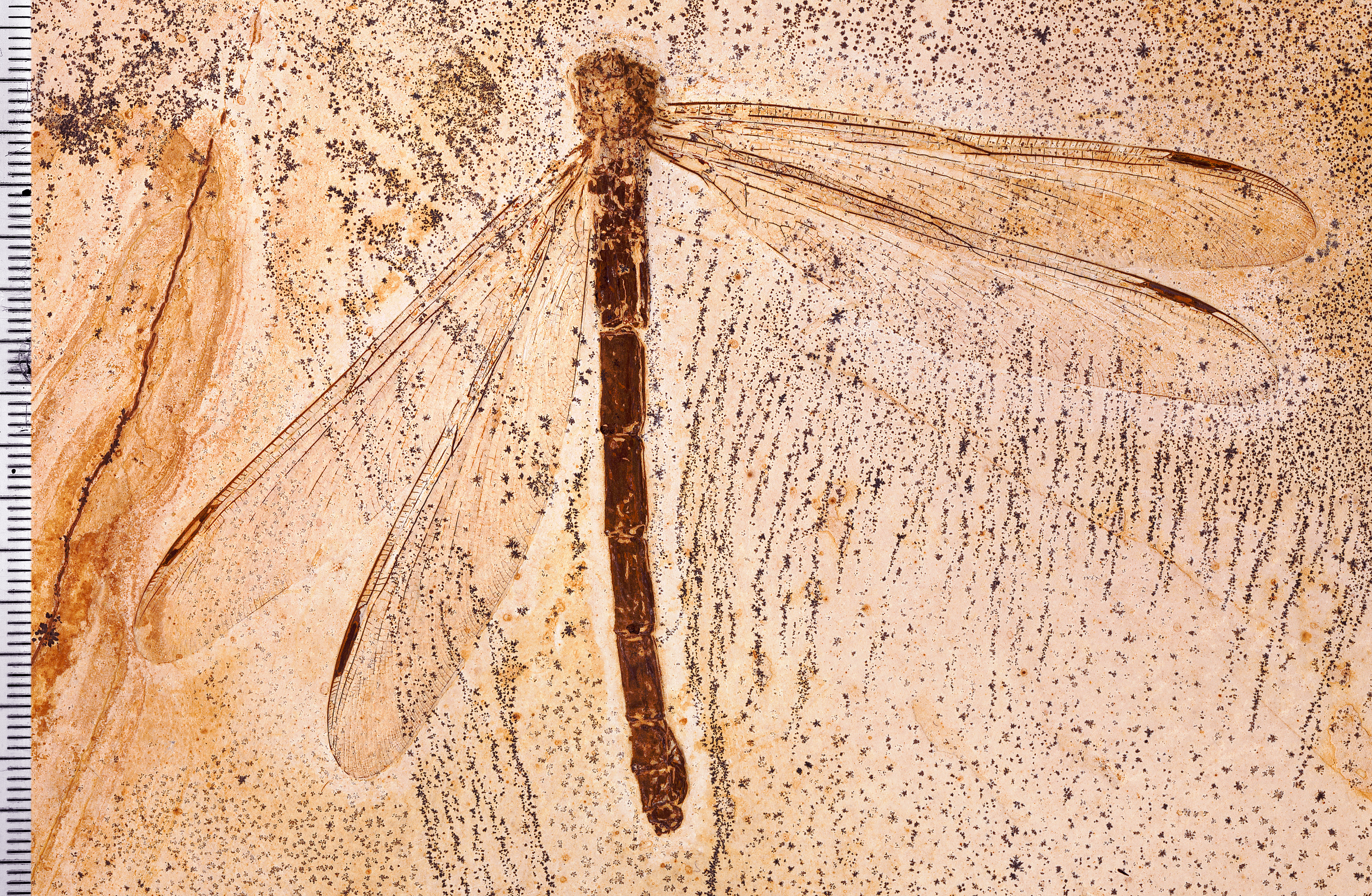 Cratostenophlebia schwickerti (Odonata: Stenophlebiidae), Lower Cretaceous, Crato Formation, Brazil, female allotype WDC 137